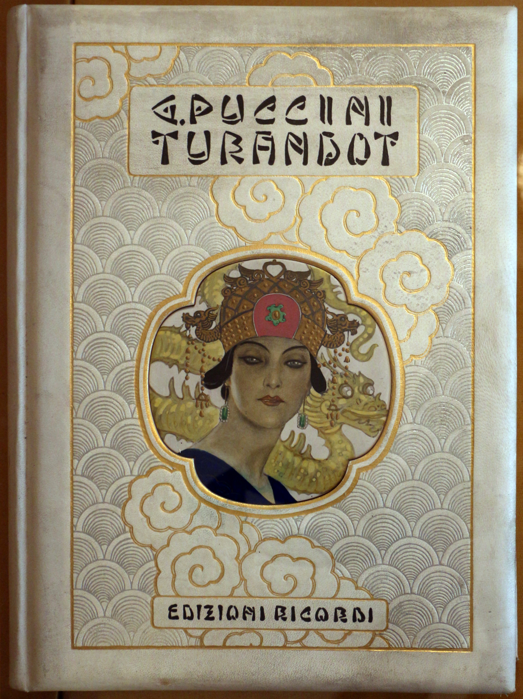 Museo del Teatro alla Scala (Milan)